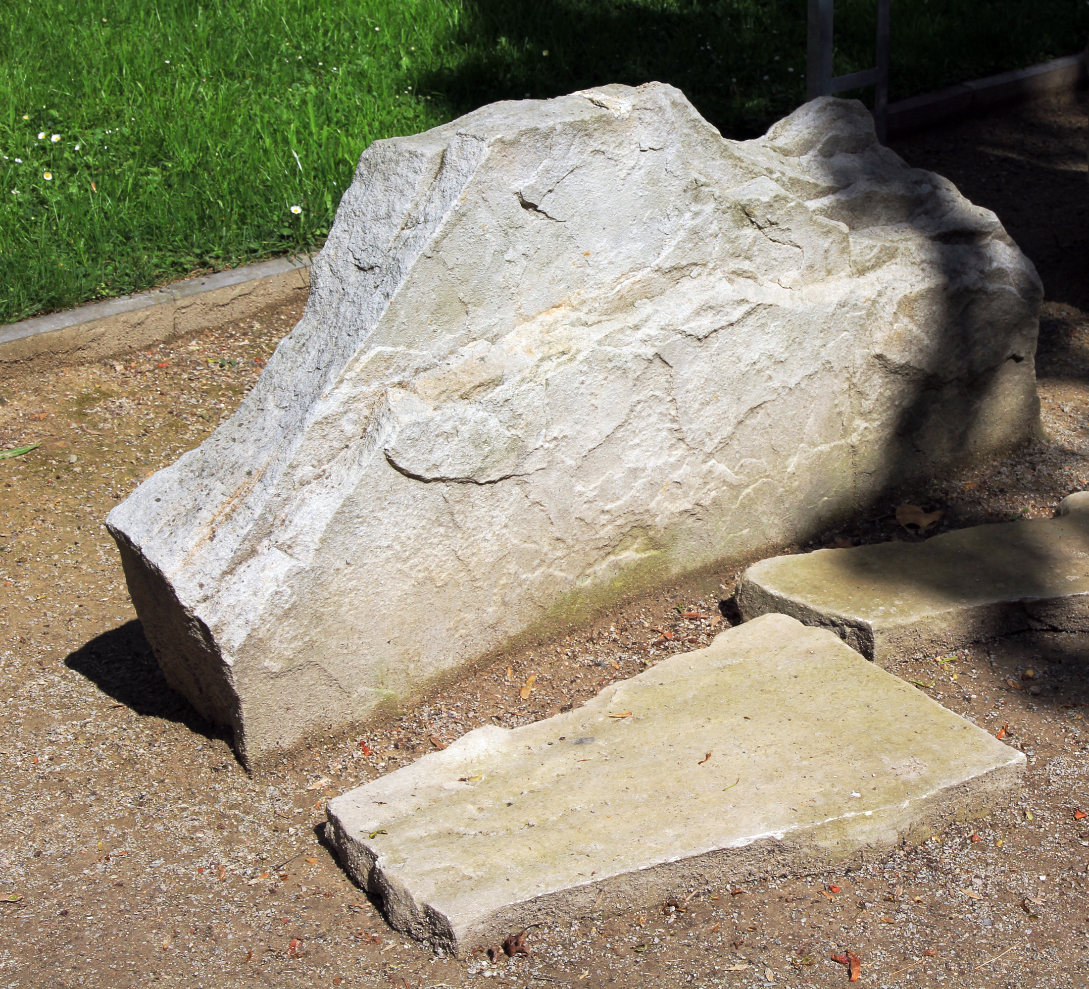 Stone marlite from Geopark in the Botanical Gardens of Charles University, Prague, Czech Republic